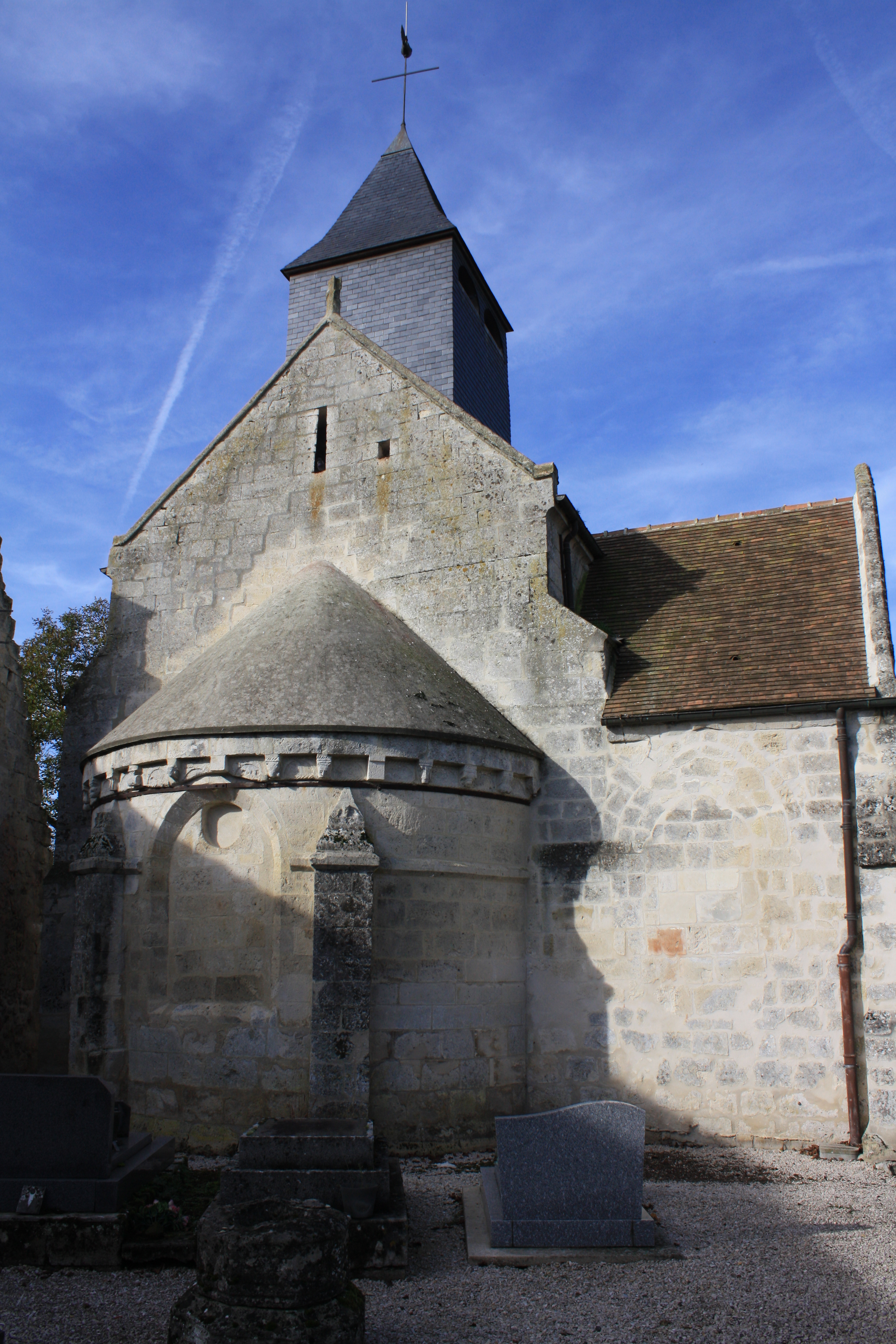 Église Saint-Jacques de Nampteuil-sous-Muret